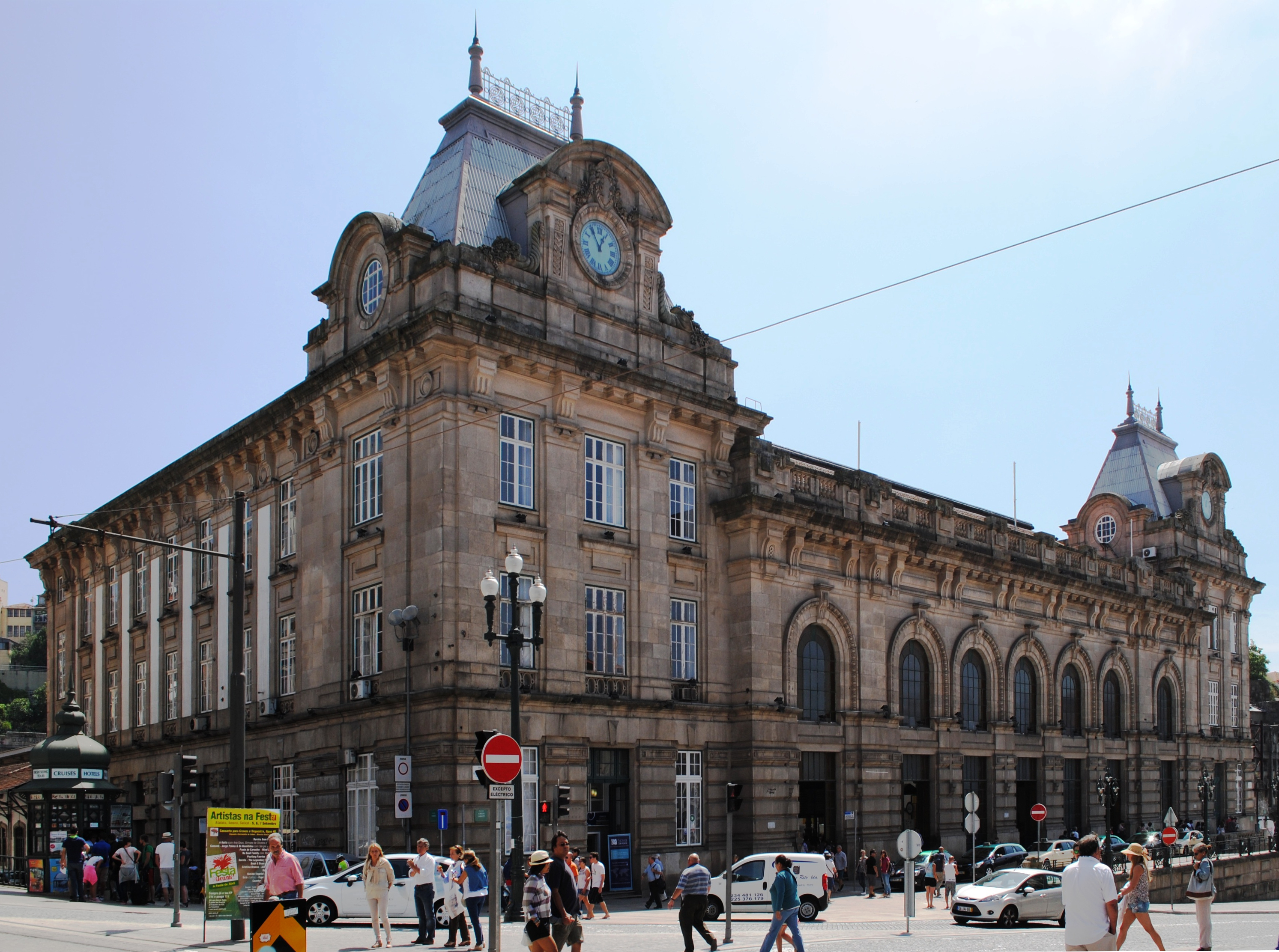 Porto São Bento train station, Porto, Portugal